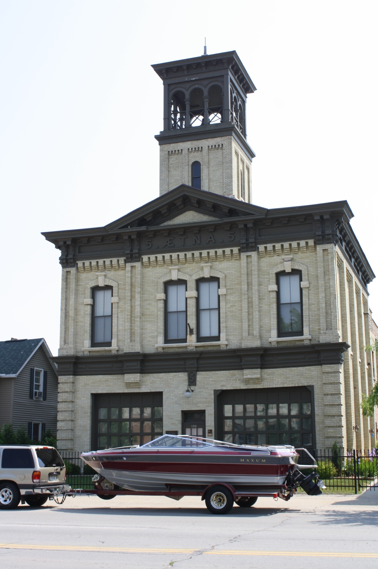 The Aetna Station #5 on Main Street, Fond du Lac, Wisconsin along U.S. Route 45, listed on the National Register of Historic Places.